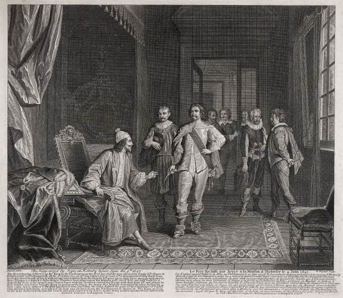 The King seized by Joyce at Holmby House June the 4th. 1647